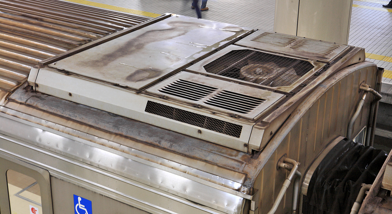 A cooler unit of Osaka Municipal Subway 21 series EMU, at Tennōji Station Midōsuji Line.